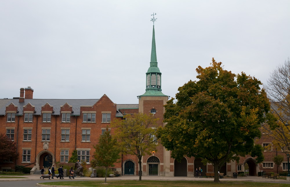 The Upper School at Ridley College - September 2010.